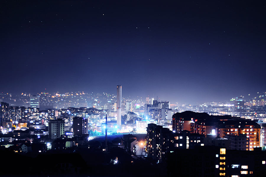 Prishtina City - Kosovo - 01